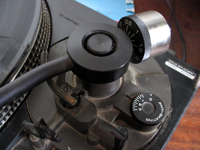 Adjustable grammophone / phonograph counterweight; the dial below is the anti-skating adjustment.